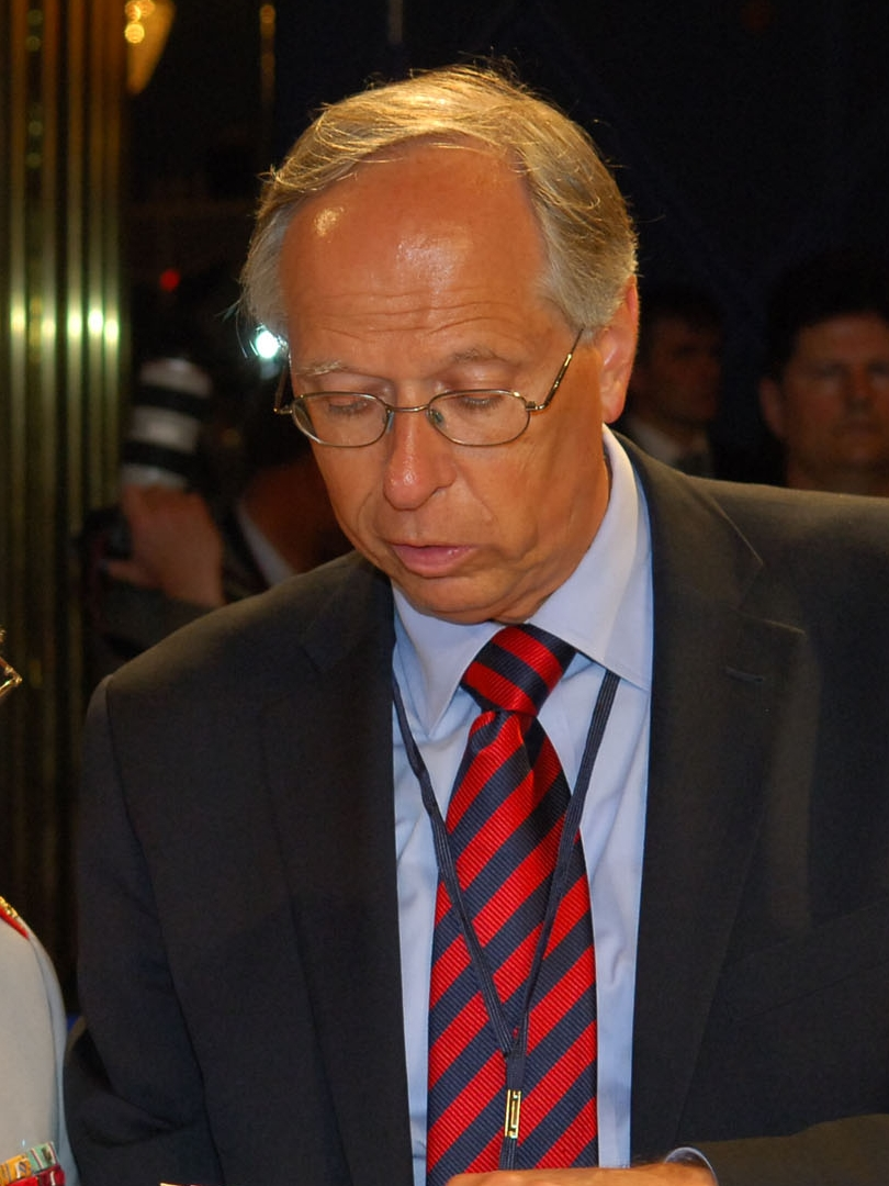 NATO Permanent Representative for Germany Edmund Duckwitz at the Meeting of NATO Foreign Ministers in Oslo